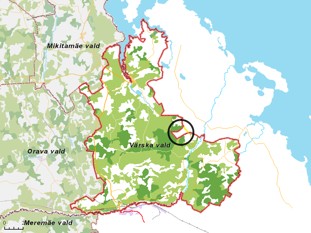 Saatse Boot marked by the circle on the map of Värska Parish municipality in Estonia, with the road crossing through Russia marked in yellow.